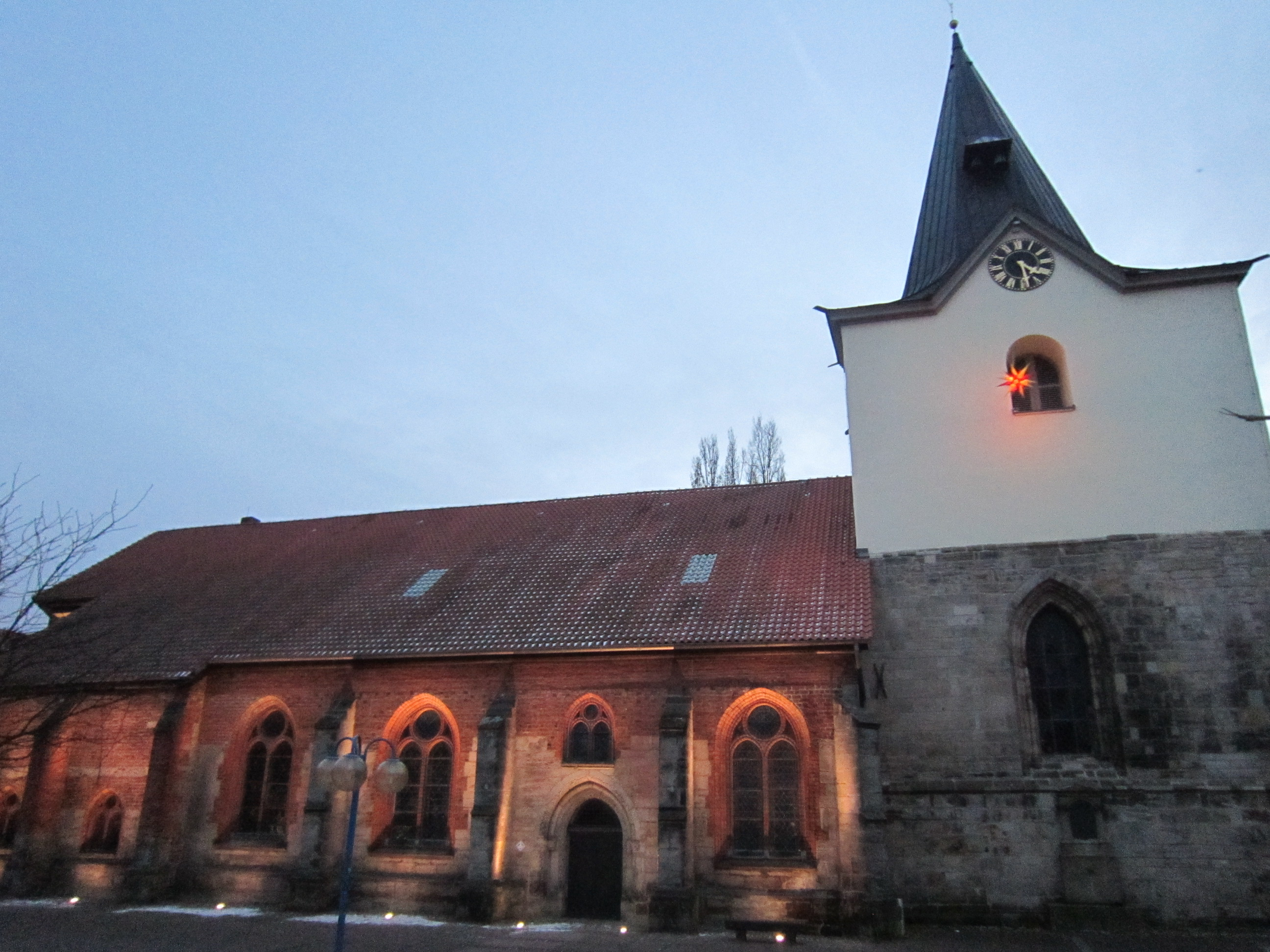 "Liebfrauenkirche" in Neustadt am Rübenberge (Region Hanover, Lower Saxony)